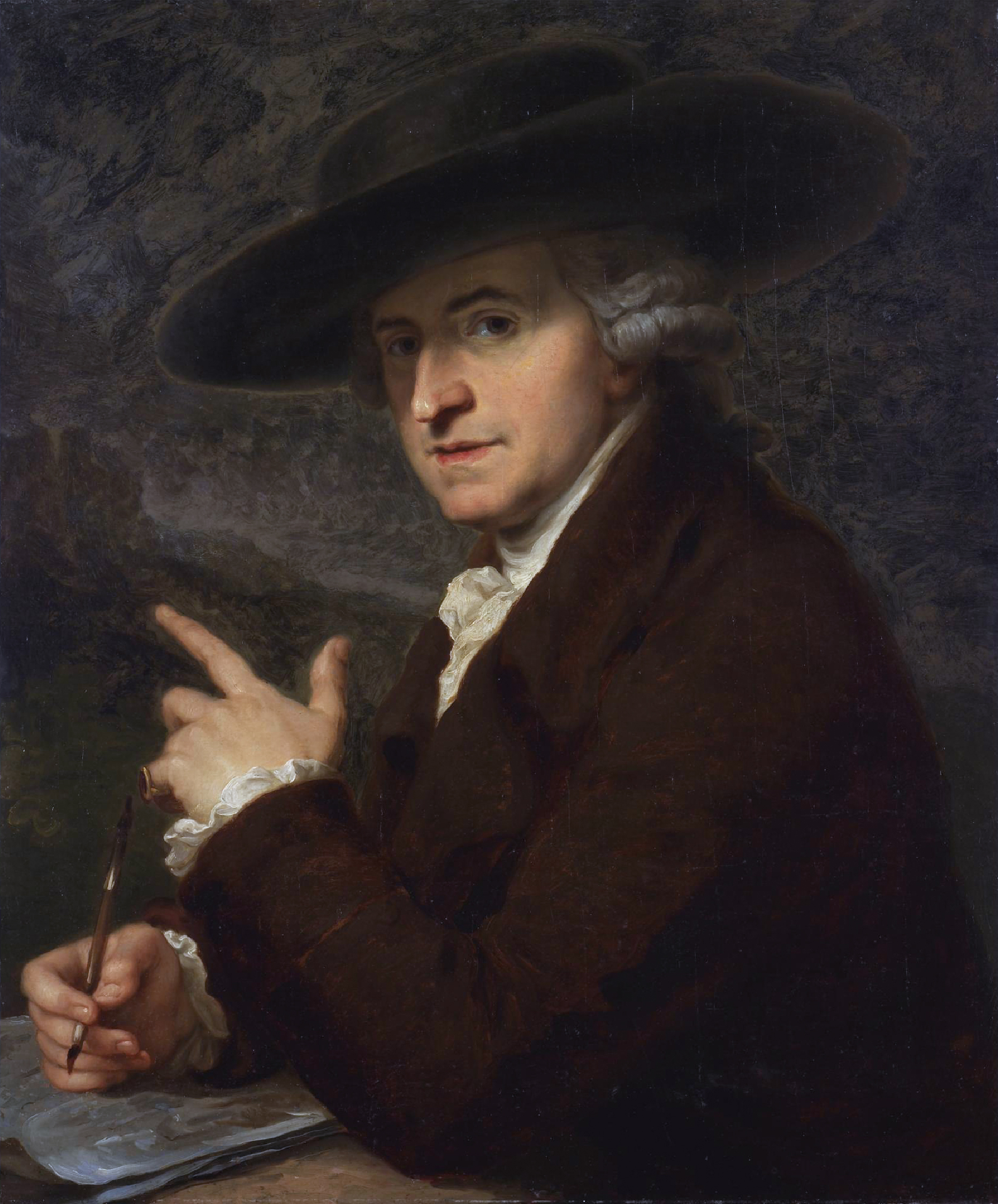 Portrait of her husband, the painter Antonio Zucchilabel QS:Lde,"Bildnis ihres Ehemanns, des Malers Antonio Zucchi" label QS:Len,"Portrait of her husband, the painter Antonio Zucchi" label QS:Lit,"Ritratto del marito, il pittore Antonio Zucchi"